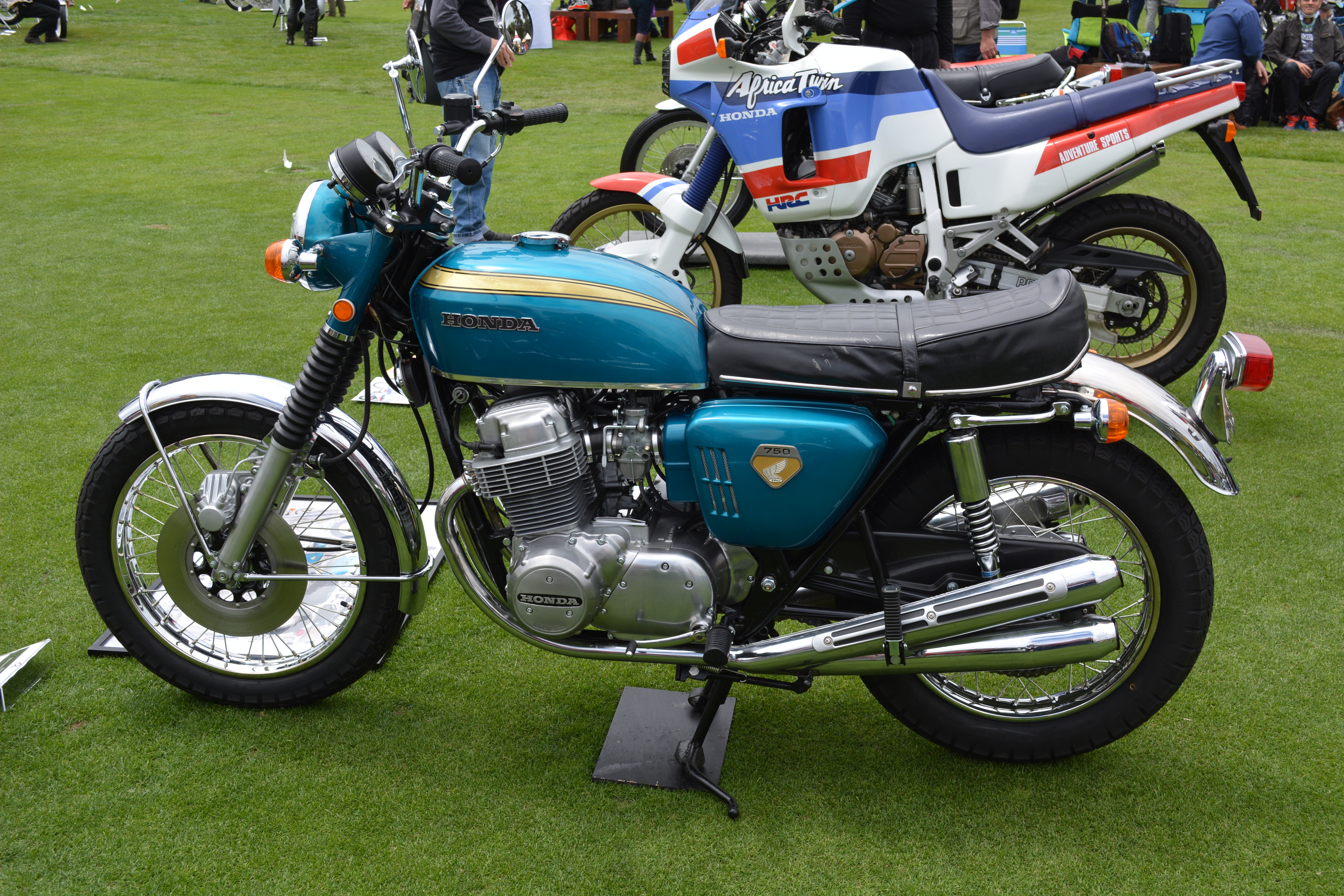 The Quail Motorcycle Gathering 2015, Carmel by the Sea, CA